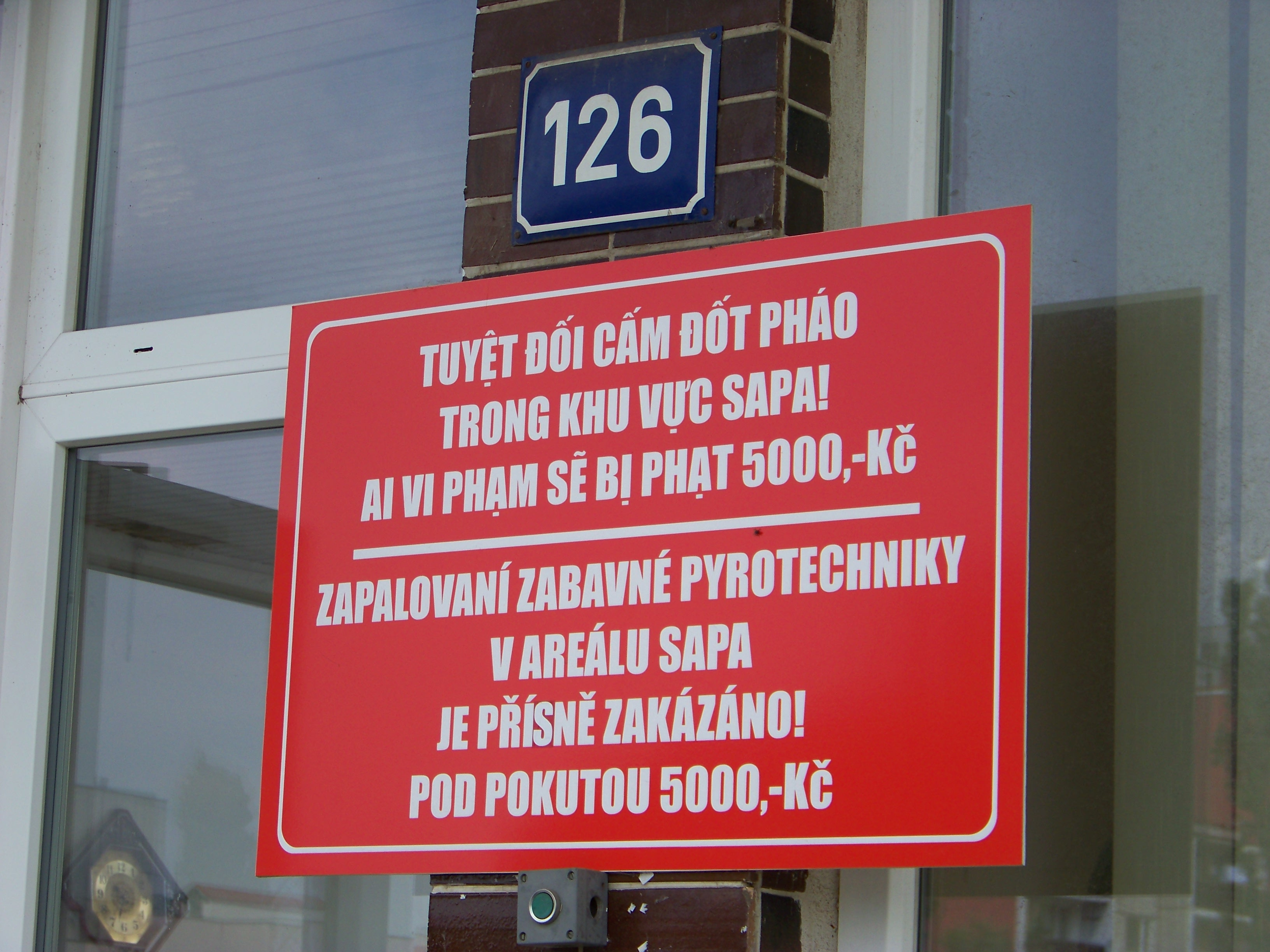 Prague-Písnice, the Czech Republic. Libušská 319/126, TTTM Sapa. Don't kindle pyrotechnics sign.